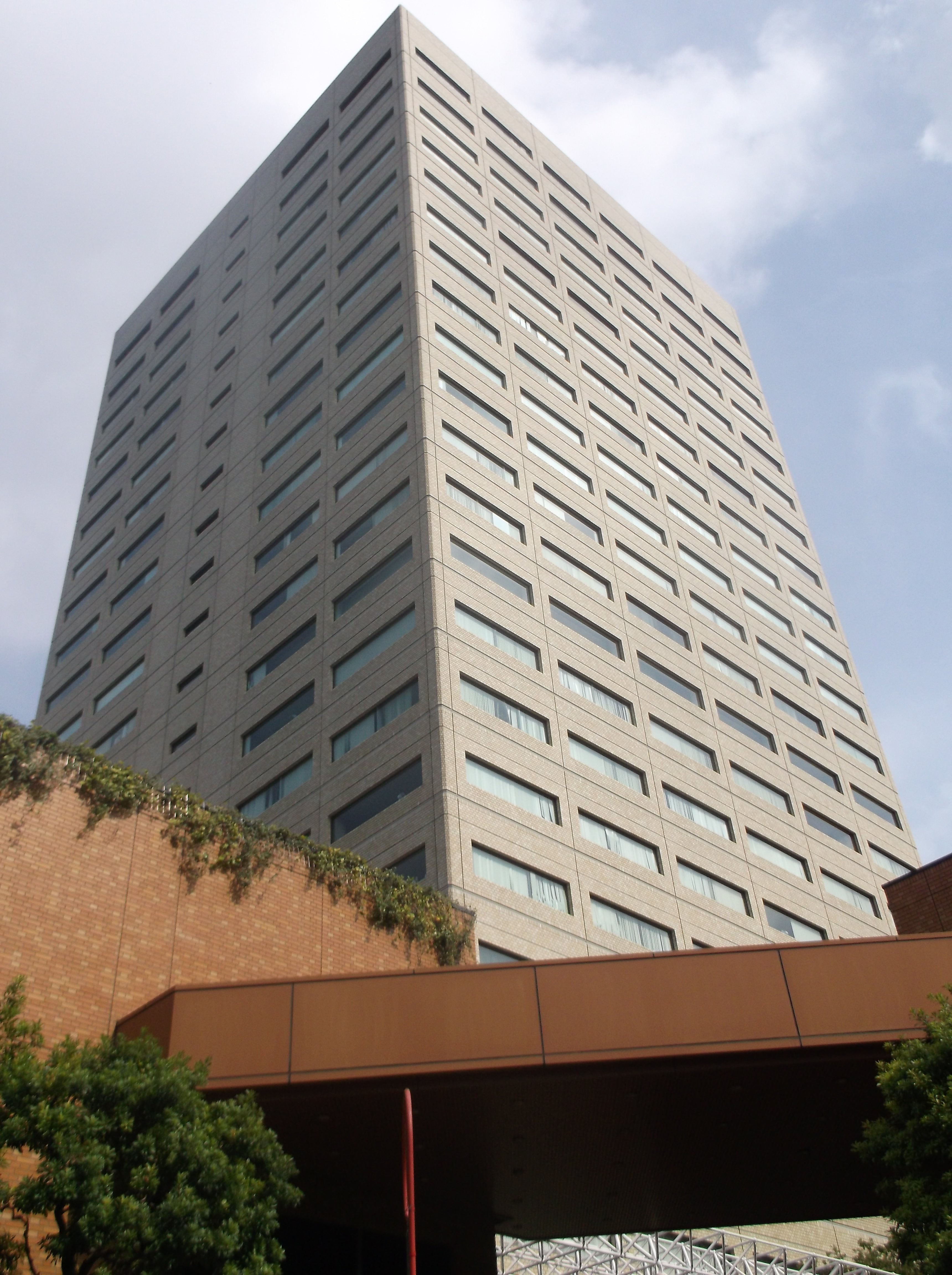 A photo of "Shinochanomizu Building" Kandasurugadai,Chiyoda-ku,Tokyo,Japan.